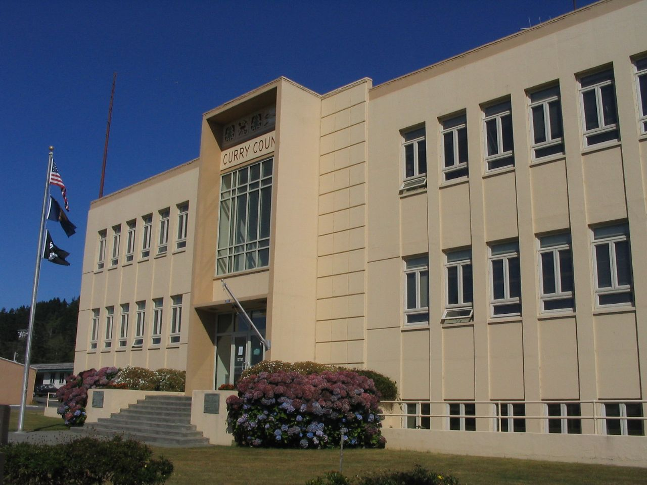 Gold Beach is a city in and the county seat of Curry County, Oregon, United States, on the Oregon Coast. The population was 2,253 at the 2010 census. The community was originally named Ellensburg in the 1850s, but later took the name Gold Beach after a beach near the mouth of the Rogue River where hundreds of placer mines extracted gold. Mailboats based in Gold Beach have been delivering mail upstream to Agness since 1895, one of only two rural mailboat routes remaining in the U.S. The population was 2,260 as of July 2011.